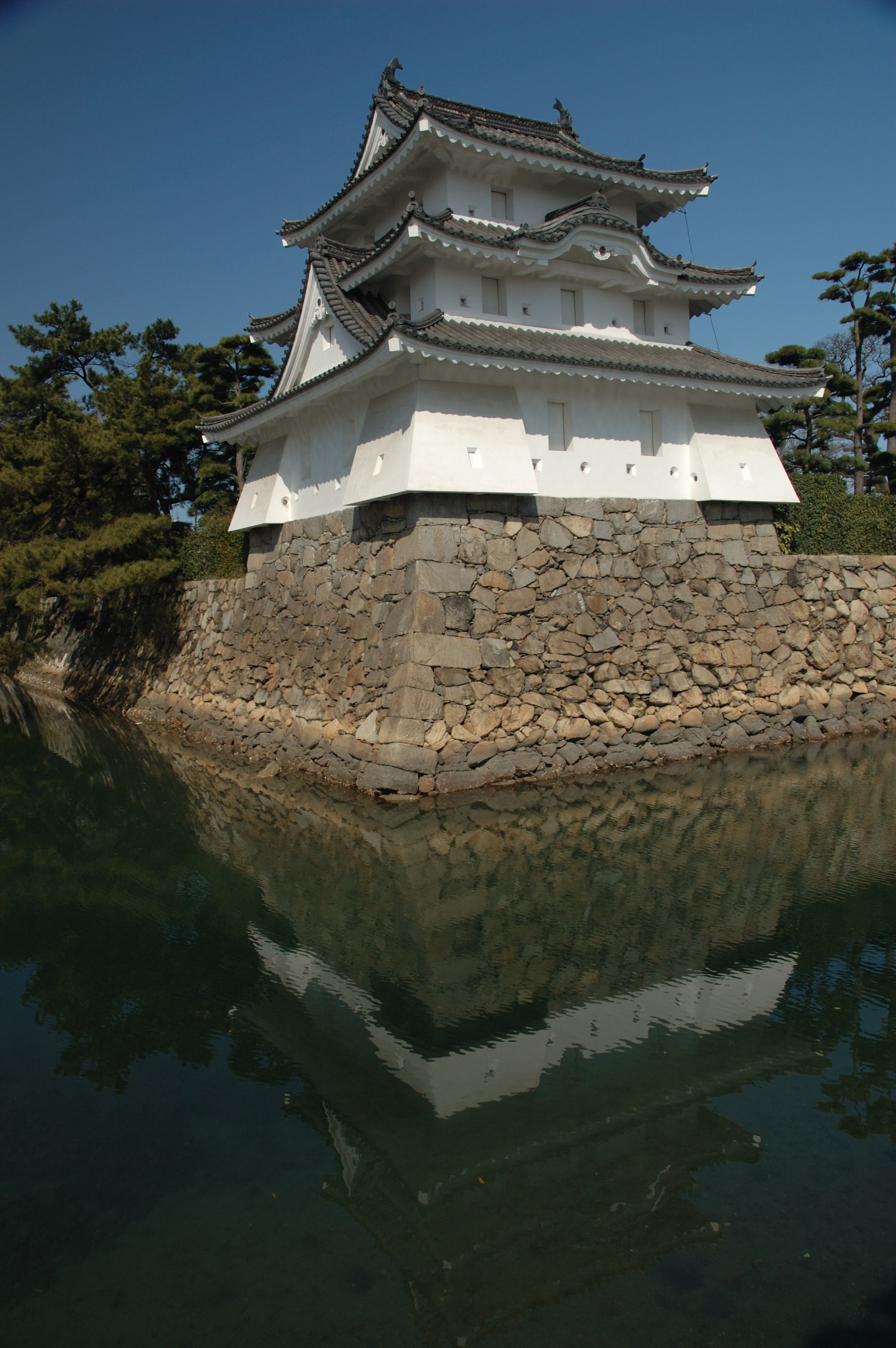 the Ushitora (northeast) turret (Ushitora-yagura, Japan's national important cultural property) of Takamatsu Castle, Kagawa pref., Japan